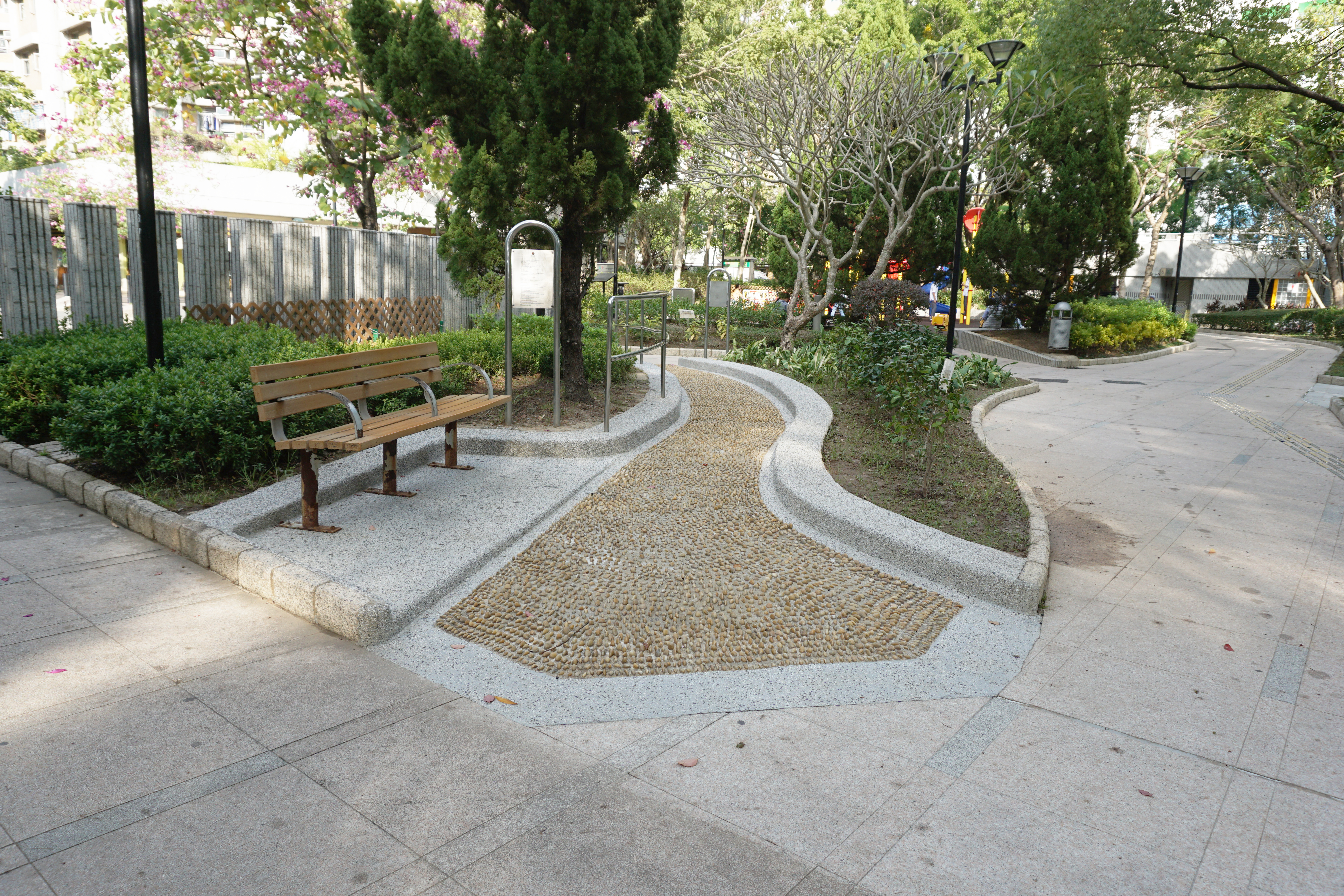 Old Market Playground in Tai Po, Hong Kong.